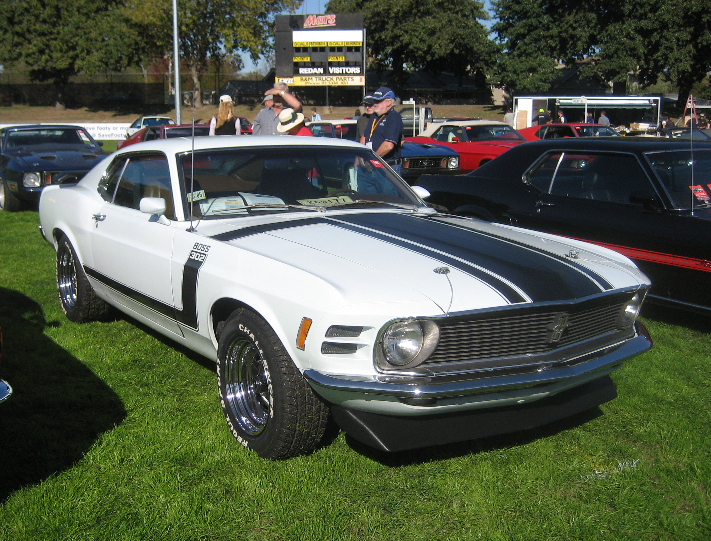 437 made Wimbledon White Boss 302s were built for Trans Am racing; Engine; 290bhp (conservative); G code; 351 Cleveland heads on a Tunnel Port 302 Windsor Block. 7013 made